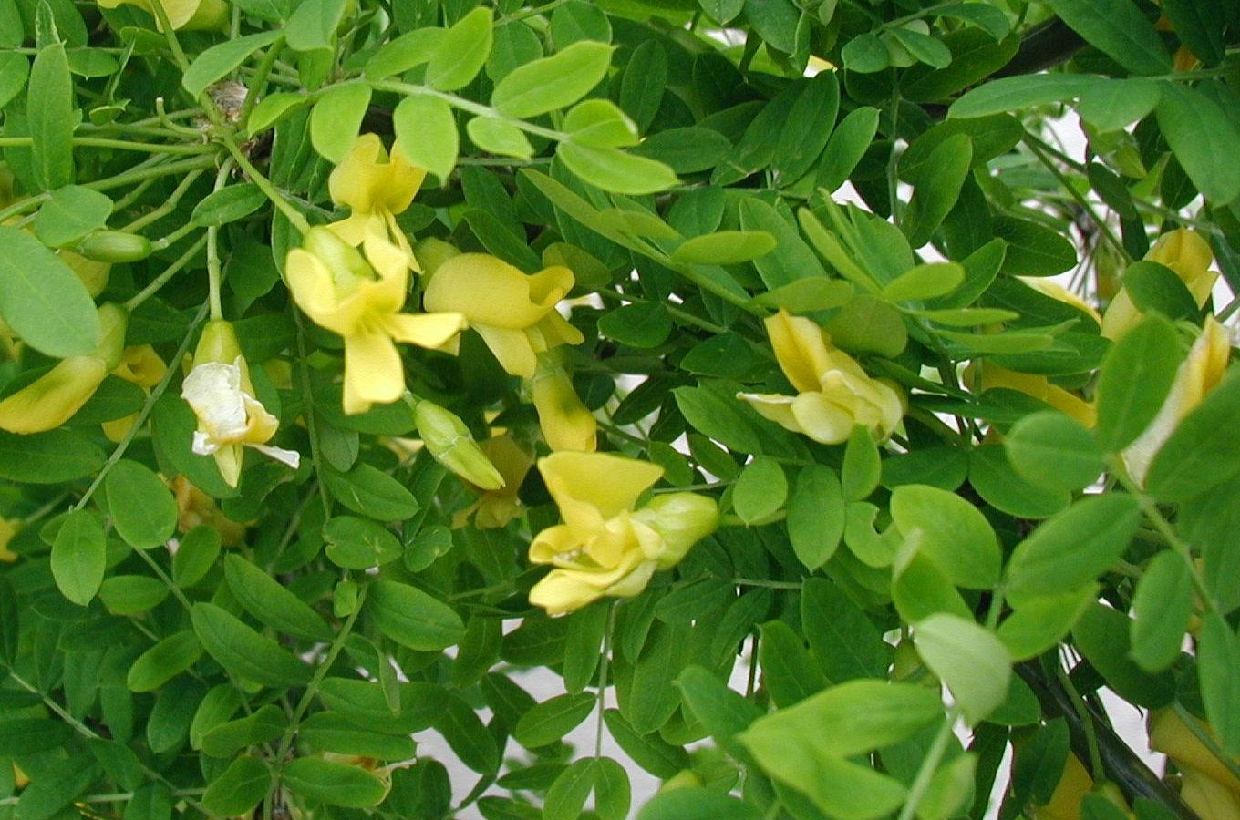 Caragana arborescens: Flowers and foliage.